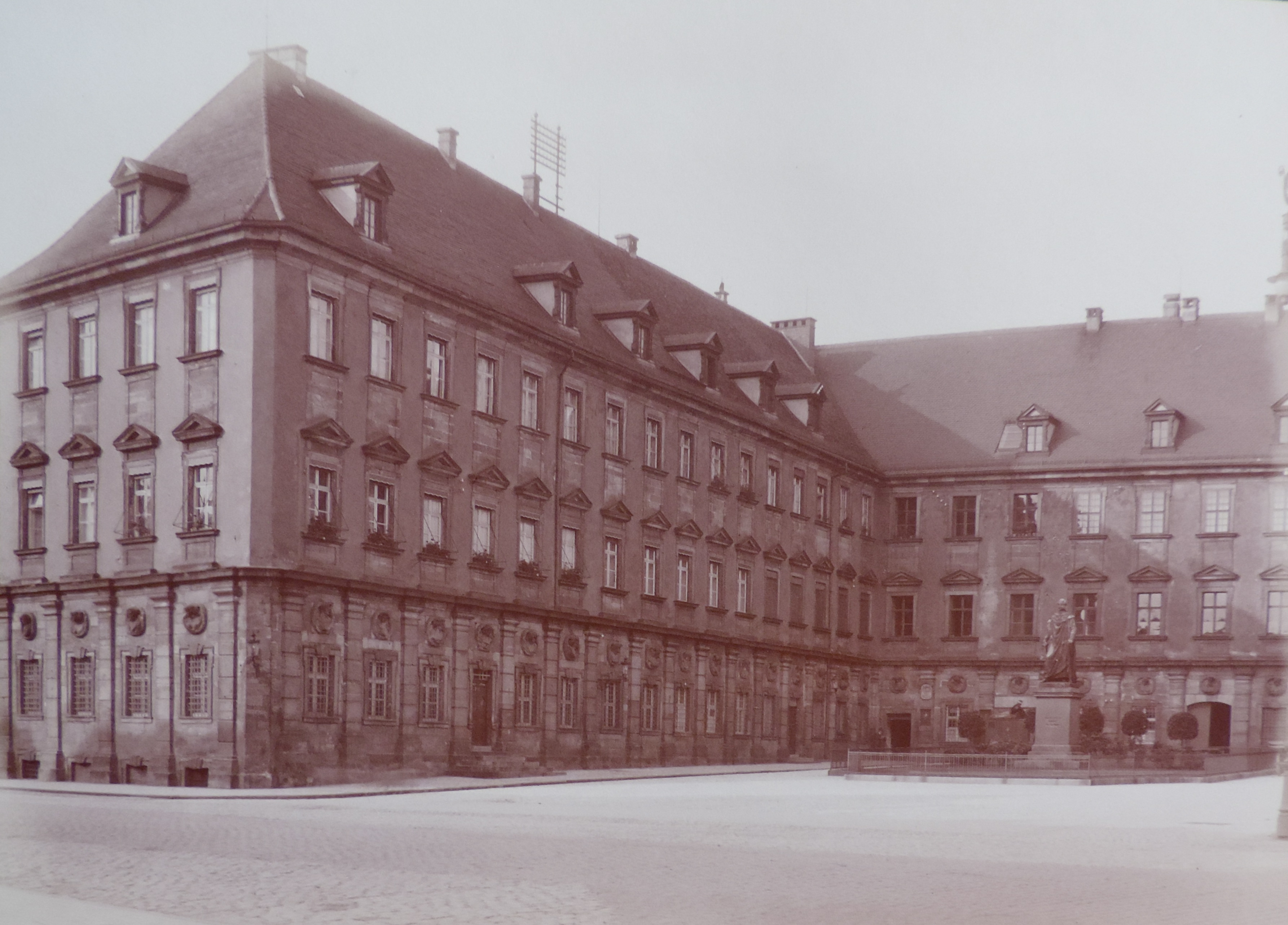 Views and photos of Bayreuth, Germany, gifted to Ferdinand I of Bulgaria to commemorate his 25-year rule. A castle from 1454.